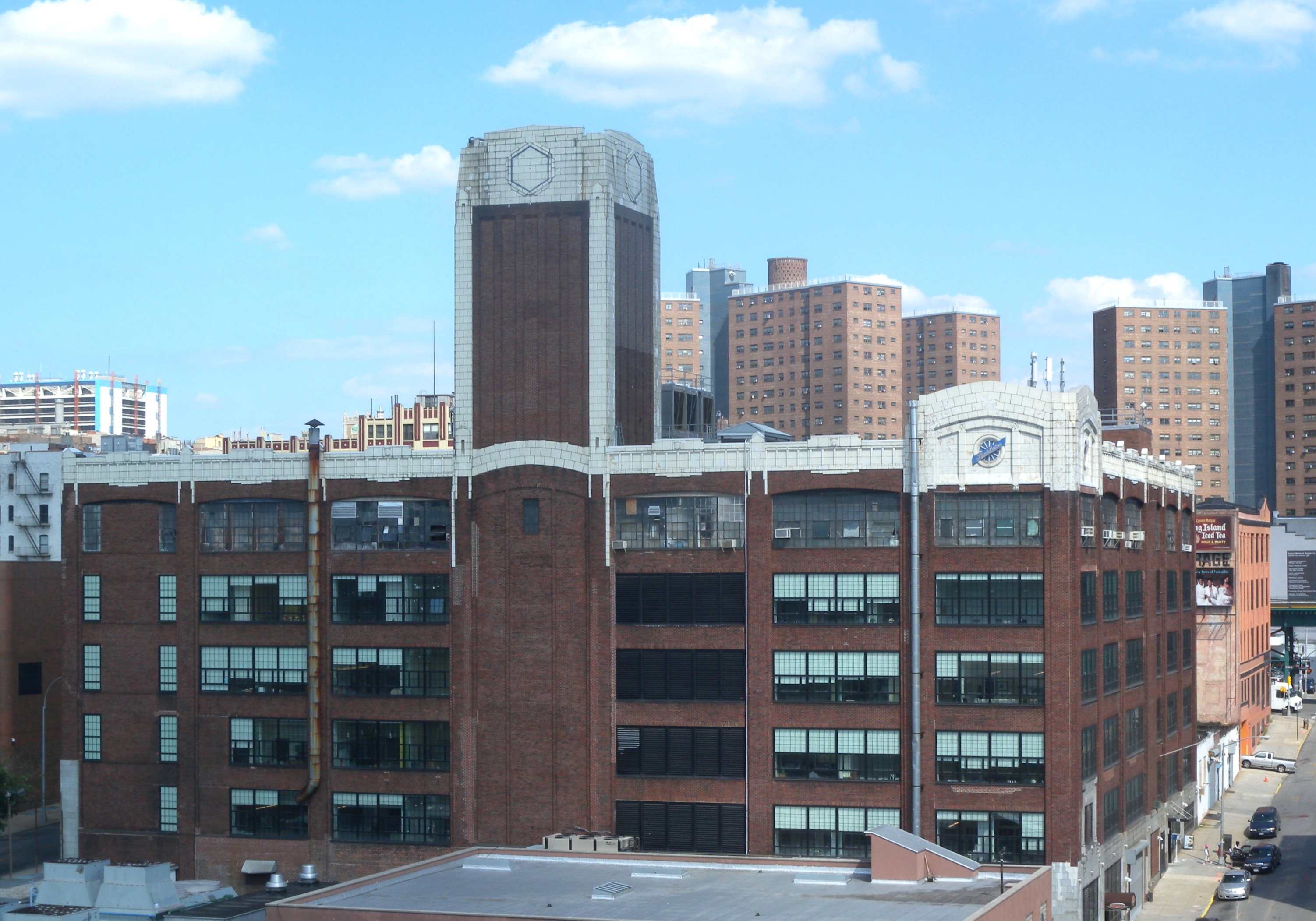 Looking east along 130th Street, at Studebaker Building on a mostly sunny afternoon.